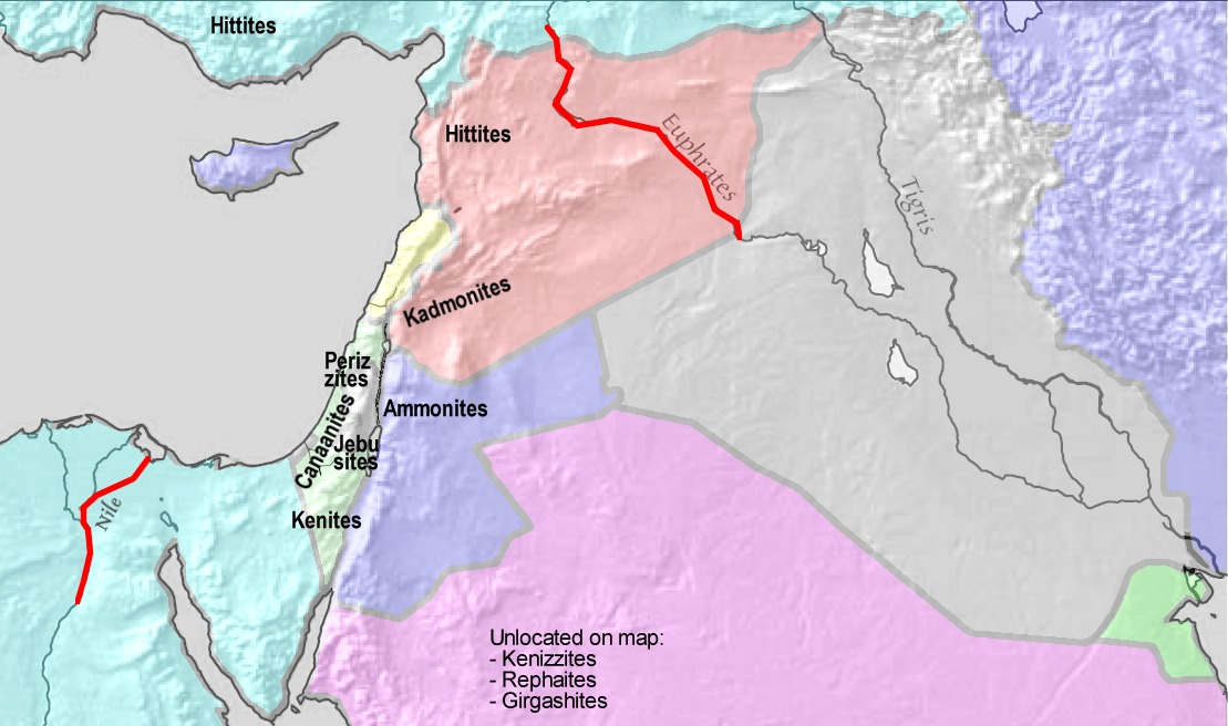 Map of Greater Israel as defined in Genesis 15:18-21 Genesis 15:18-21 (KJV): In the same day the LORD made a covenant with Abram, saying, Unto thy seed have I given this land, from the river of Egypt unto the great river, the river Euphrates: The Kenites, and the Kenizzites, and the Kadmonites, And the Hittites, and the Perizzites, and the Rephaims, And the Amorites, and the Canaanites, and the Girgashites, and the Jebusites. The Biblical Amorites are considered synonymous with the Canaanites and occupied the same land. Interpretation My first reference was The International Standard Bible Encyclopedia Online. I also consulted the Jewish Encyclopedia, the Bible Wiki and, of course, Google and Google Images. Comment This is a JPEG copy of a 1109 x 656 pixel Corel PhotoPaint file. This map is very vague, to reflect the vagueness of this passage. The exact locations of many of these sites is lost forever. This map is therefore the result of speculations by many experts (not me). If you feel strongly about some aspect of it, contact me with references. To preserve the quality of the image, future edits should be done on the original file. This map is to complement my previous map of the Land of Israel as defined in Numbers 34:1-12 and Ezekiel 47:13-20. The resemblance between this map and the map of the Kingdom of Israel at David's death is striking, but the origin and time of these two maps is very different. This map is, heavens forbid, the result of Original Research by myself, and is also an image. Original research is not allowed in Wikipedia, but original images are. The survival of this map to the scrutiny of the NOR police therefore depends on this ambiguity. If you want to publish this map elsewhere, I'll be glad to email you the original file. Licensing The relief image in the background is from a map from the CIA, which is public domain in the U.S.